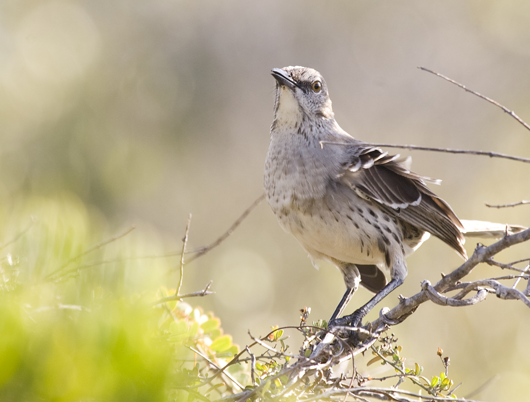 A Bahama Mockingbird in Ciego de Avila Province, Cuba.